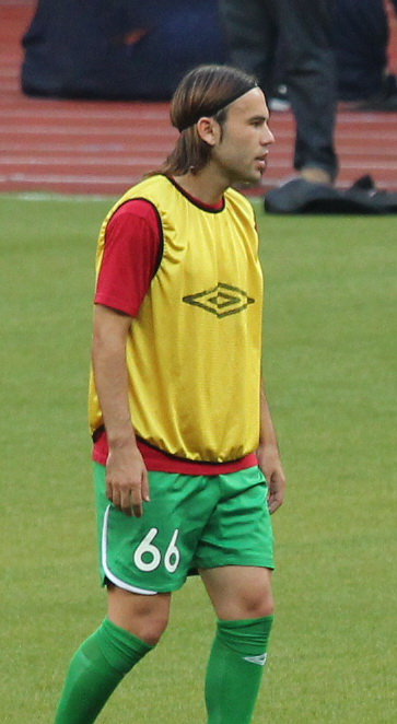 Bibras Natkho